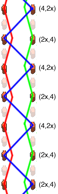 Ladder diagram of three-ball box juggling pattern. Synchronous siteswap [(4,2x)(2x,4)] to the right.